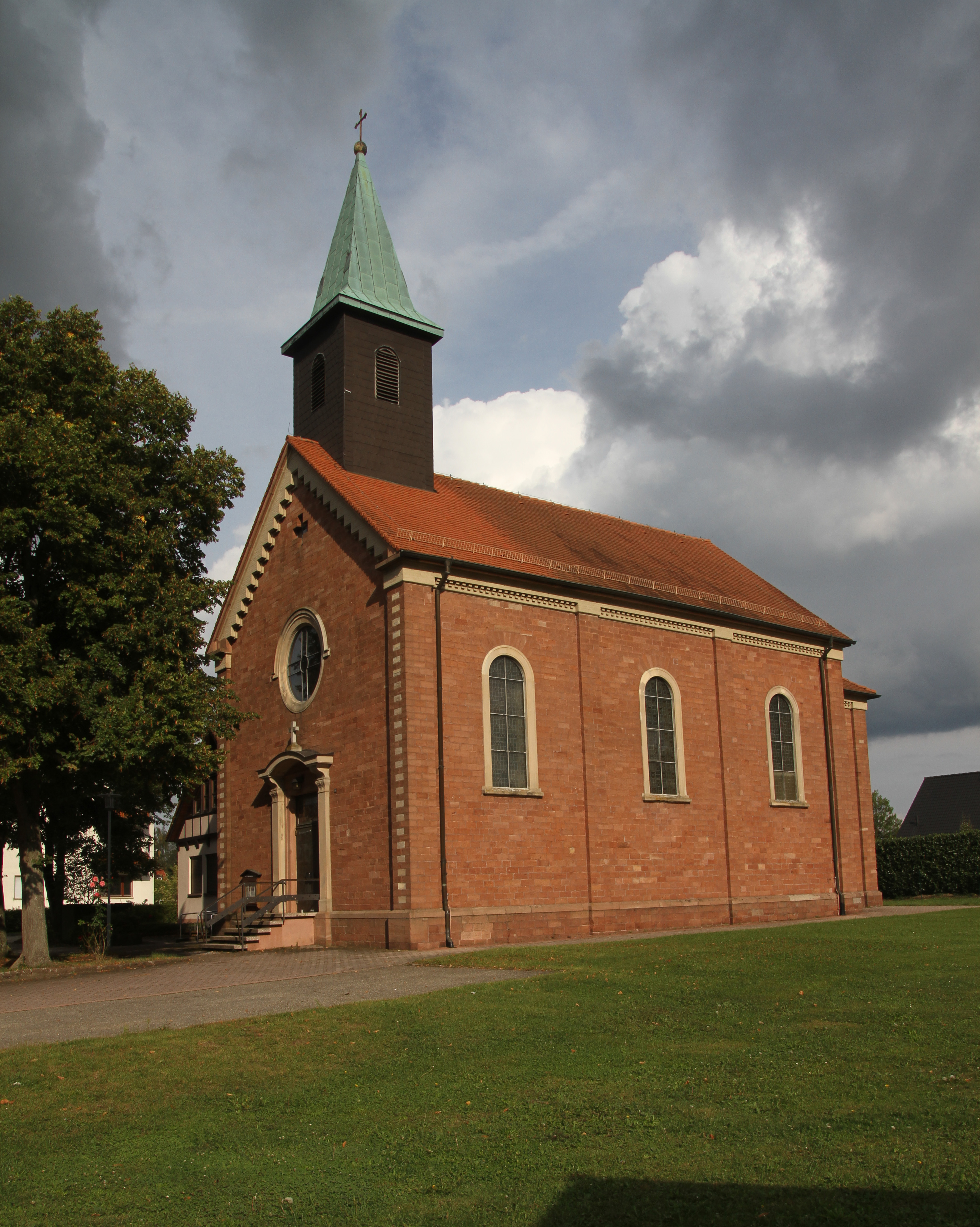 Church of St. Johannes der Täufer in Rheinau-Rheinbischofsheim.